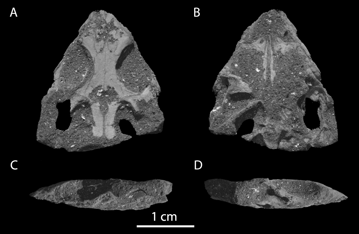 Volume rendering of the skull of Colobops noviportensis (YPM VPPU 18835) prior to three-dimensional segmentation and removal of matrix. Shown in a dorsal, b ventral, c left lateral, and d anterior views.